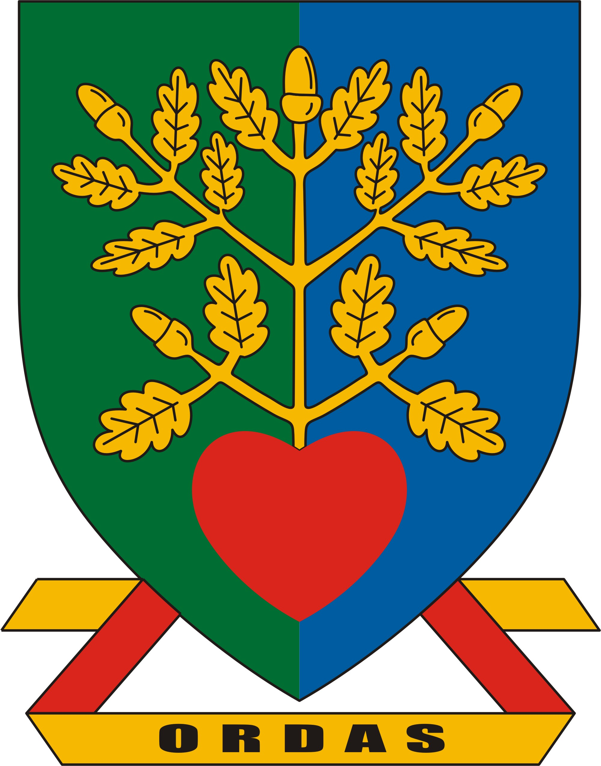 Coat of arms of Ordas, Hungary